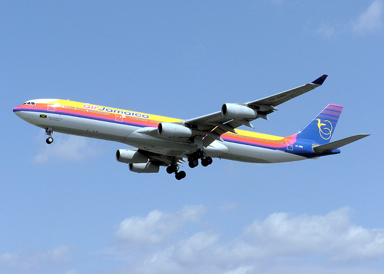 An airliner of Air Jamaica, the Airbus A340-300 (6Y-JMM), landing at London (Heathrow) Airport.